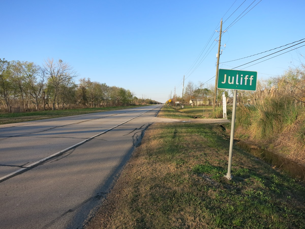 Photo shows the road sign on Farm to Market Road 521 in Juliff, Texas. The view is to the north.